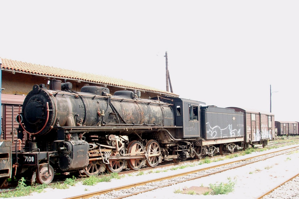 Preserved Vulcan Iron Works USATC S-118 steam locomotive of OSE with tender and a freight railcar at Corinth Old station, Greece.